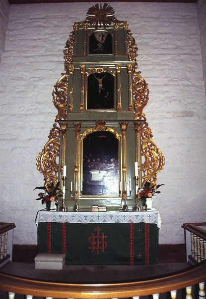 Eidsvoll church, altar piece. Altar piece in Eidsvoll Church from 1765 with tree paintings; Last Supper at the bottom, the Crucifixion of Christ in the middle and at the top Ascension of Christ.